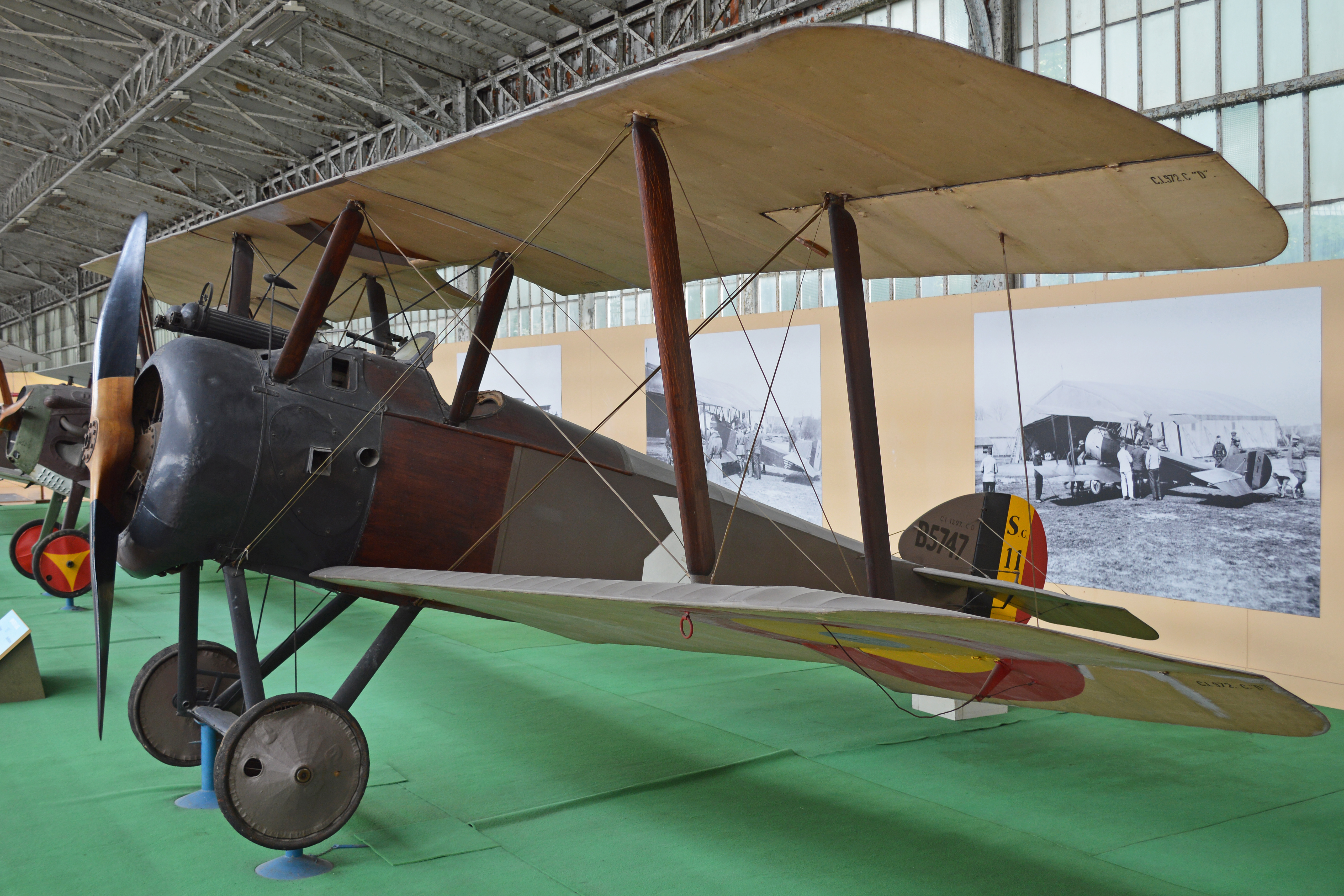 This is a genuine Belgian Air Service Camel, which was donated to the museum in 1920 and restored in the late 1980s. Built by Clayton & Shuttleworth, its wartime history is sadly unknown. It remains on display at what is known as the Brussels Air Museum, although it is actually the Air and Space Section of the Royal Museum of the Armed Forces and Military History. Brussels, Belgium. 26th June 2016